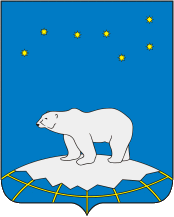 Dikson rayon (Taymyria), coat of arms